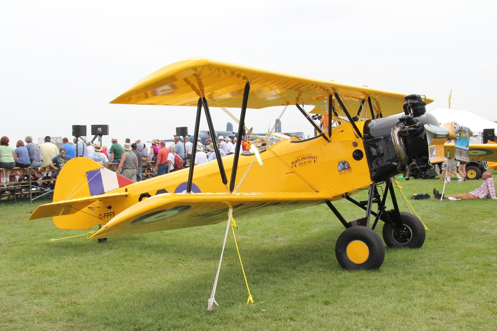 Fleet 16B (C-FPFF) Vintage Wings Of Canada/Les Ailes d' Époque Du Canada